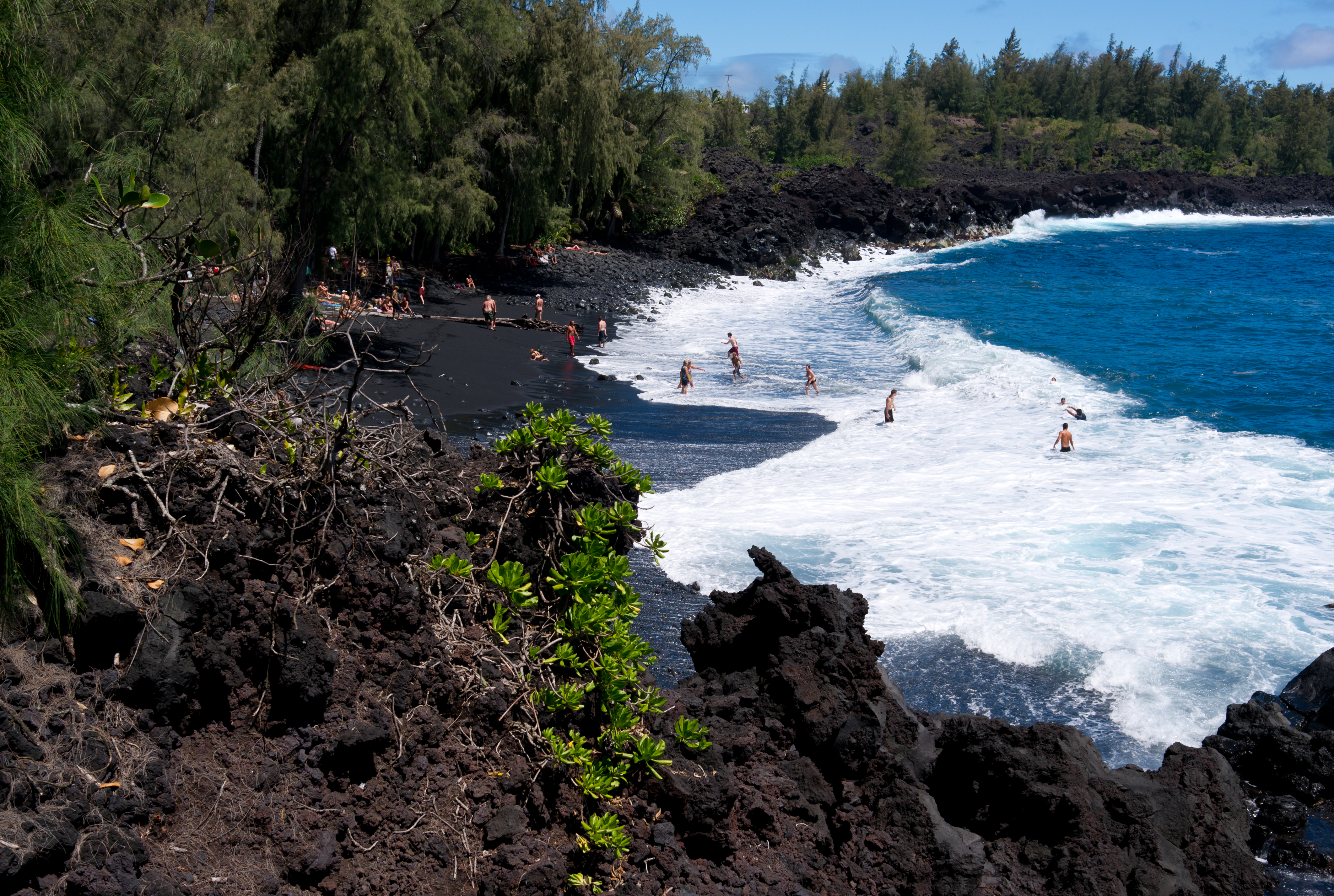 Kehena Beach, Big island of Hawaiʻi.